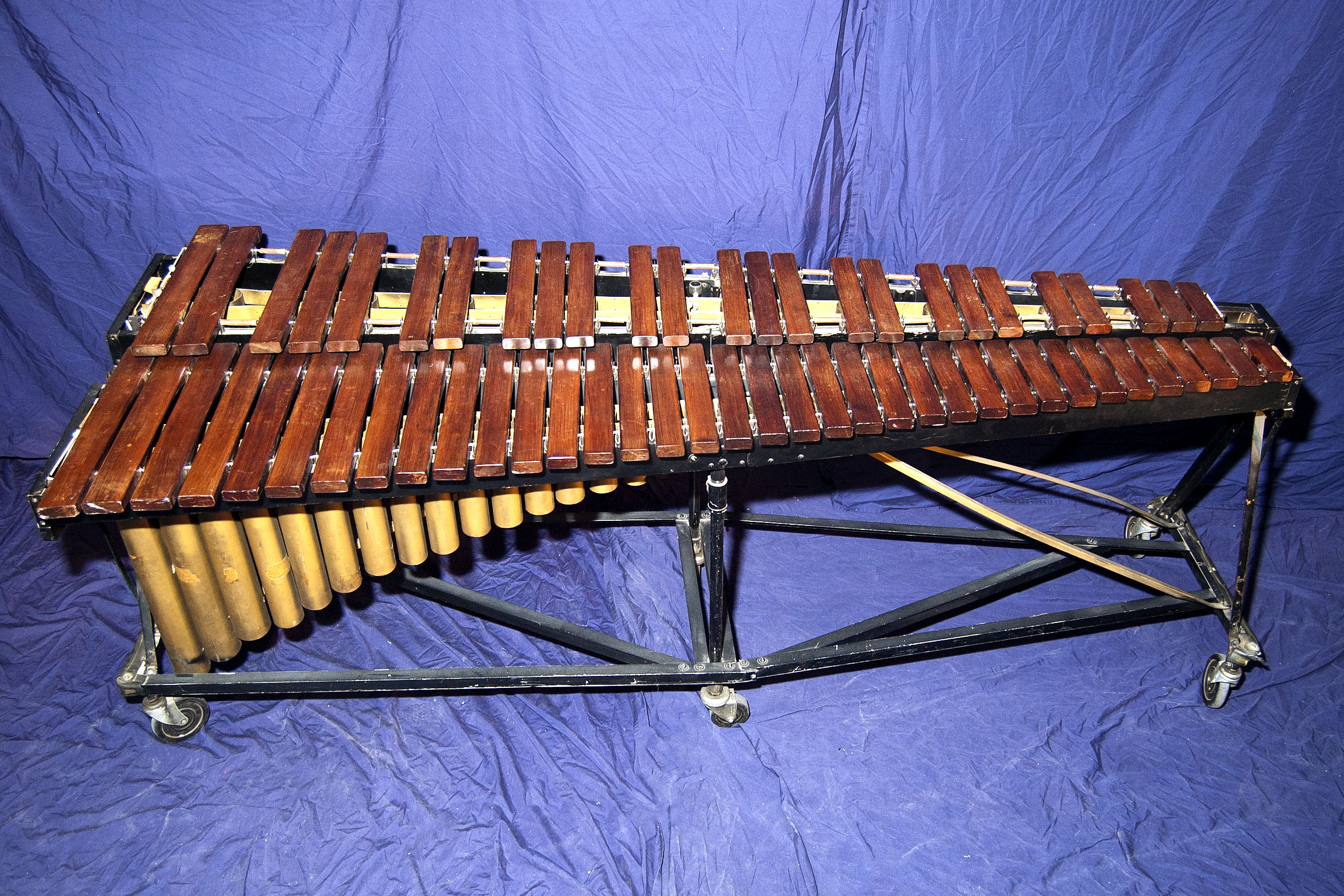 Xylorimba (from Emil Richards Collection), range C3-C8